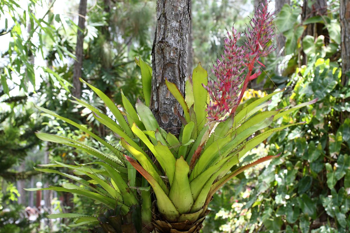 Aechmea rubrolilacina growing well on a pine tree in Palm Beach Florida